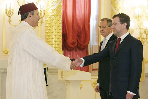 THE KREMLIN, MOSCOW. Presentation by foreign ambassadors of their letters of credence. Ambassador of the Kingdom of Morocco Abdelkader Lecheheb presents his letter of credence to the President of Russia.